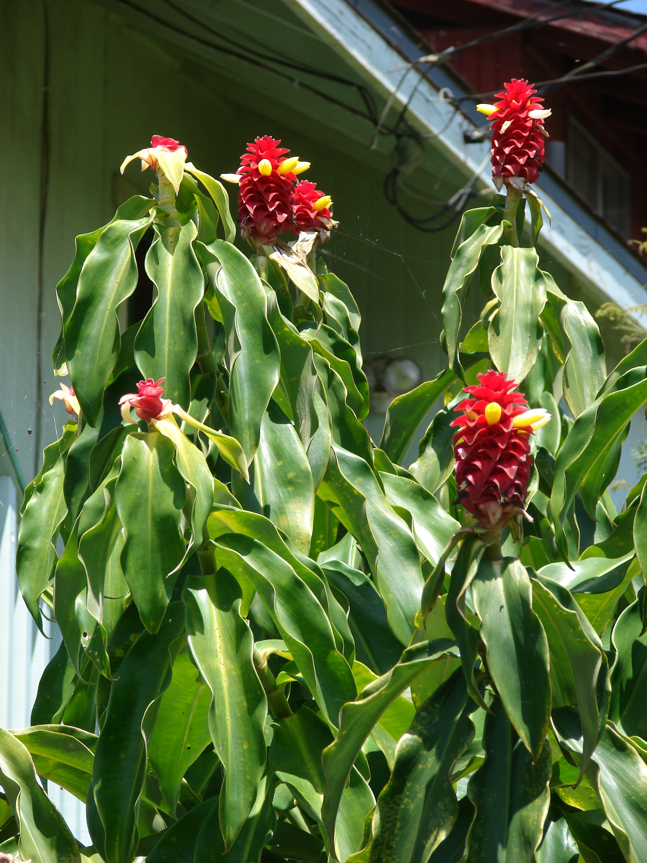 Costus comosus (flowering habit). Location: Lanai, Lanai City